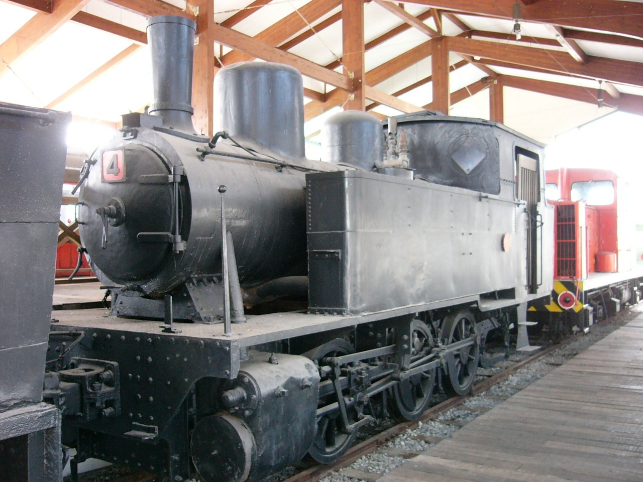 Kagoshima kotsu steam locomotive No.4 preserved at Nansatsu railway museum